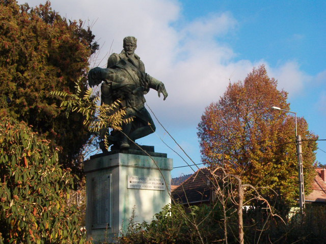 Photo taken by the Uploader.